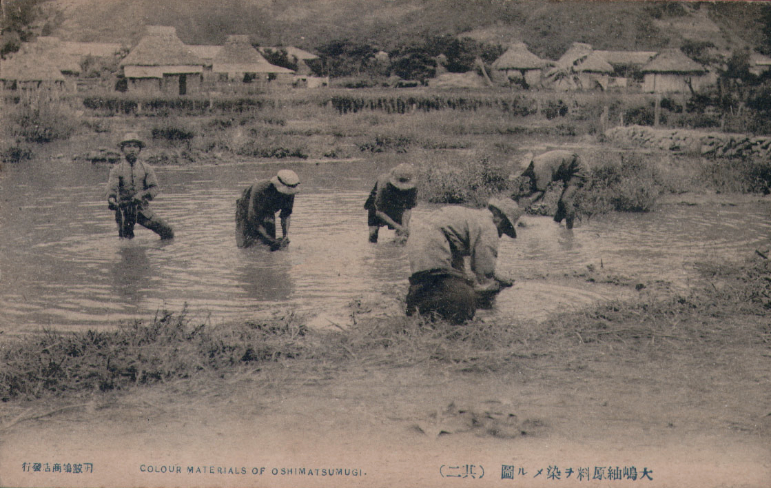 Pre-war Japanese postcard showing people "colour materials of Ōshima-tsumugi"